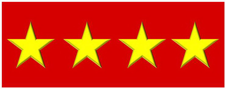 four star plate